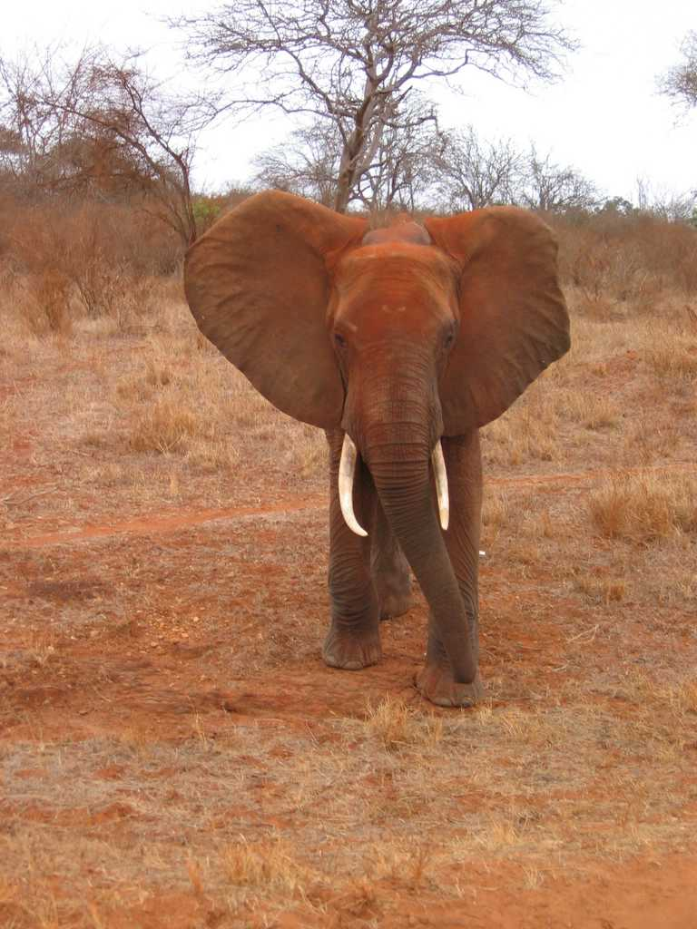 Red elephant at Tasvo East National Park